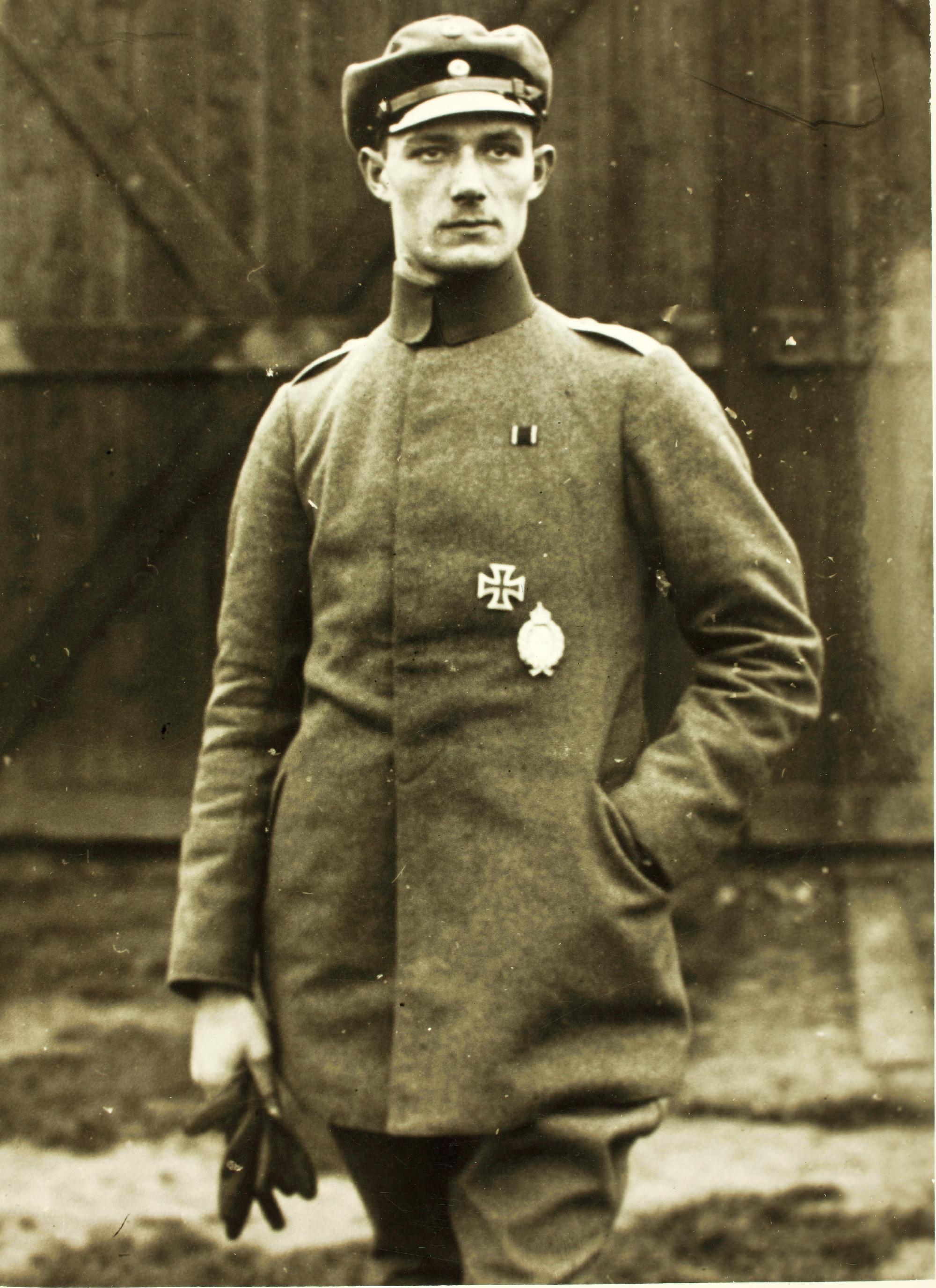 Catalog #: 10_0017291 Title: World War One German Aviator Lt. Veltjens Date: 1914-1918 Additional Information: World War One German Aviator Lt. Veltjens Tags: World War One German Aviator Lt. Veltjens , World War One German Aviator Lt. Veltjens , 1914-1918 Repository: San Diego Air and Space Museum Archive